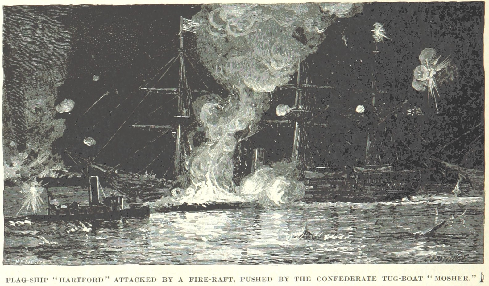 During the Battle of Forts Jackson and St. Philip, the Confederate tug CSS Mosher pushes a fire raft against USS Hartford.